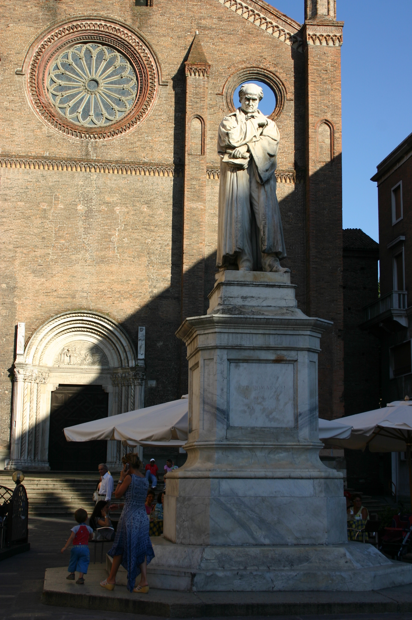 Cristoforo Marzaroli, Monument to Gian Domenico Romagnosi, inaugurated in 1867, standing in front of the facade of San Francesco church in Piacenza, Italy.